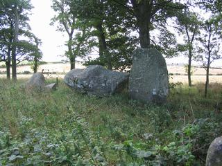 Berrybrae Stone Circle. In a copse 50m into the field.